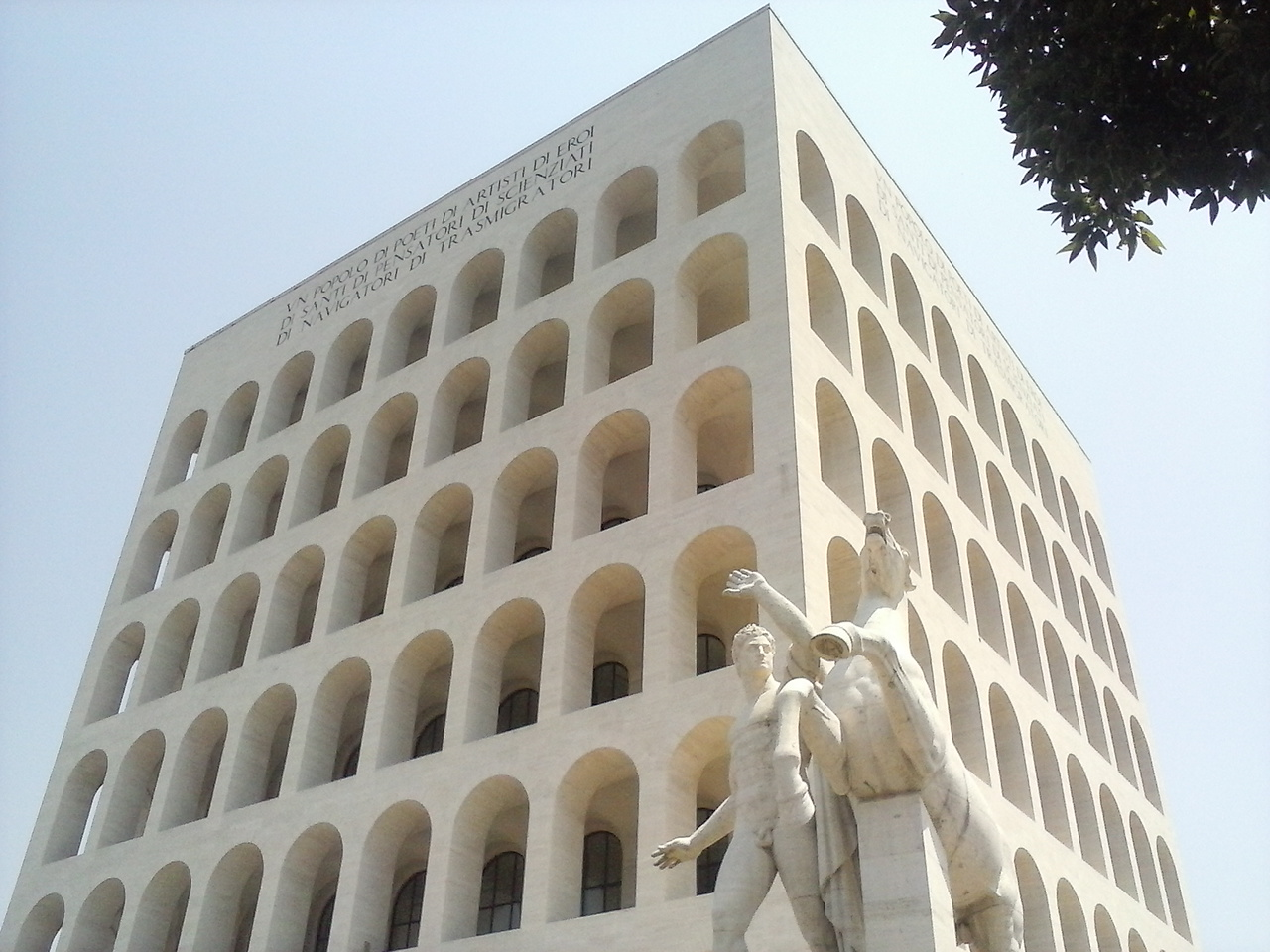 Can I use this photo? Read here for more informations.